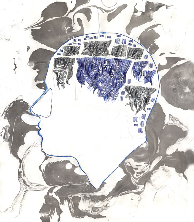 Carter, 2005 Ink and paper on hand-marbleized paper 14" x 17"